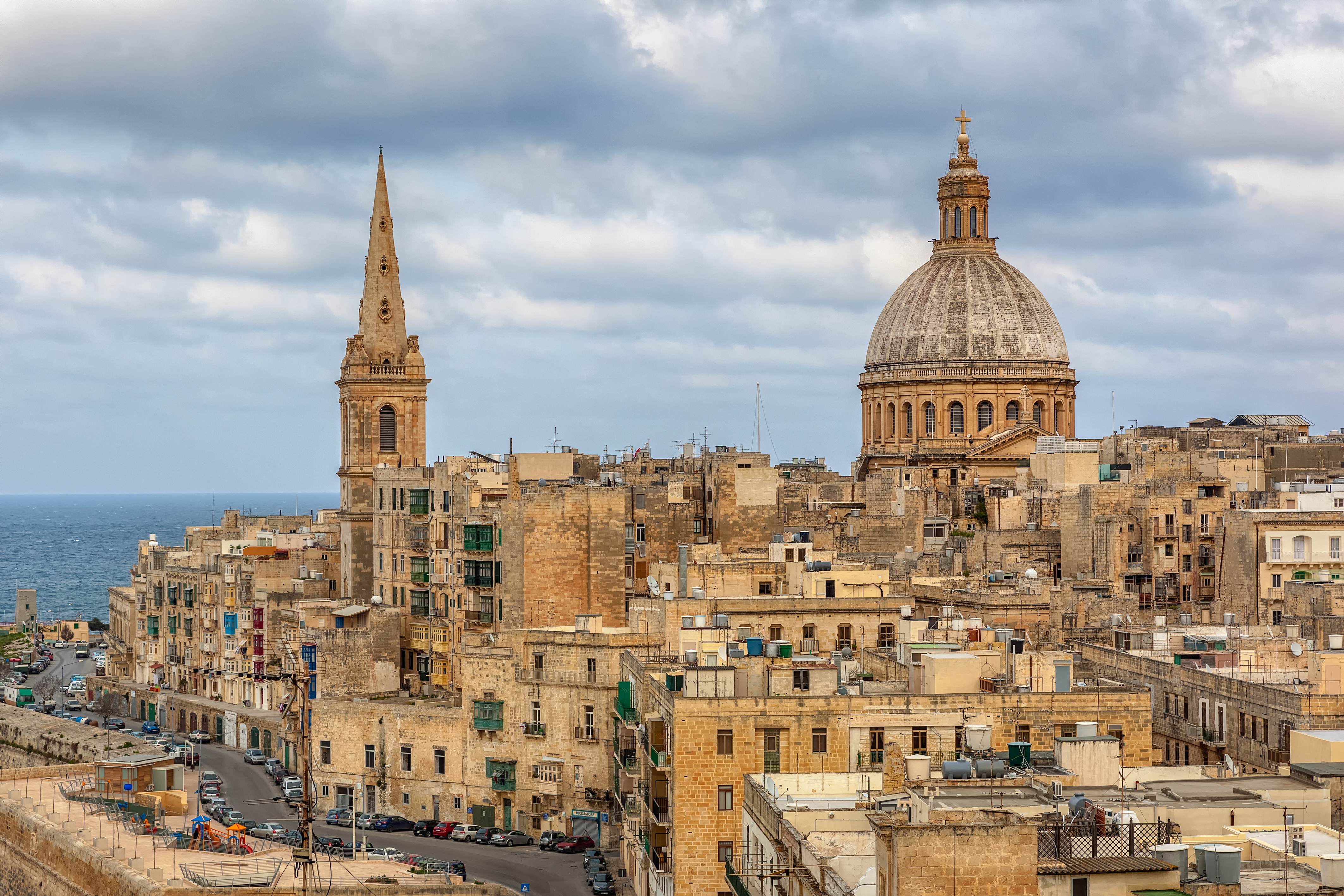 Valletta skyline with Our Lady of Mount Carmel and St Paul's Pro-Cathedral Photographed from St. Andrew's Bastion